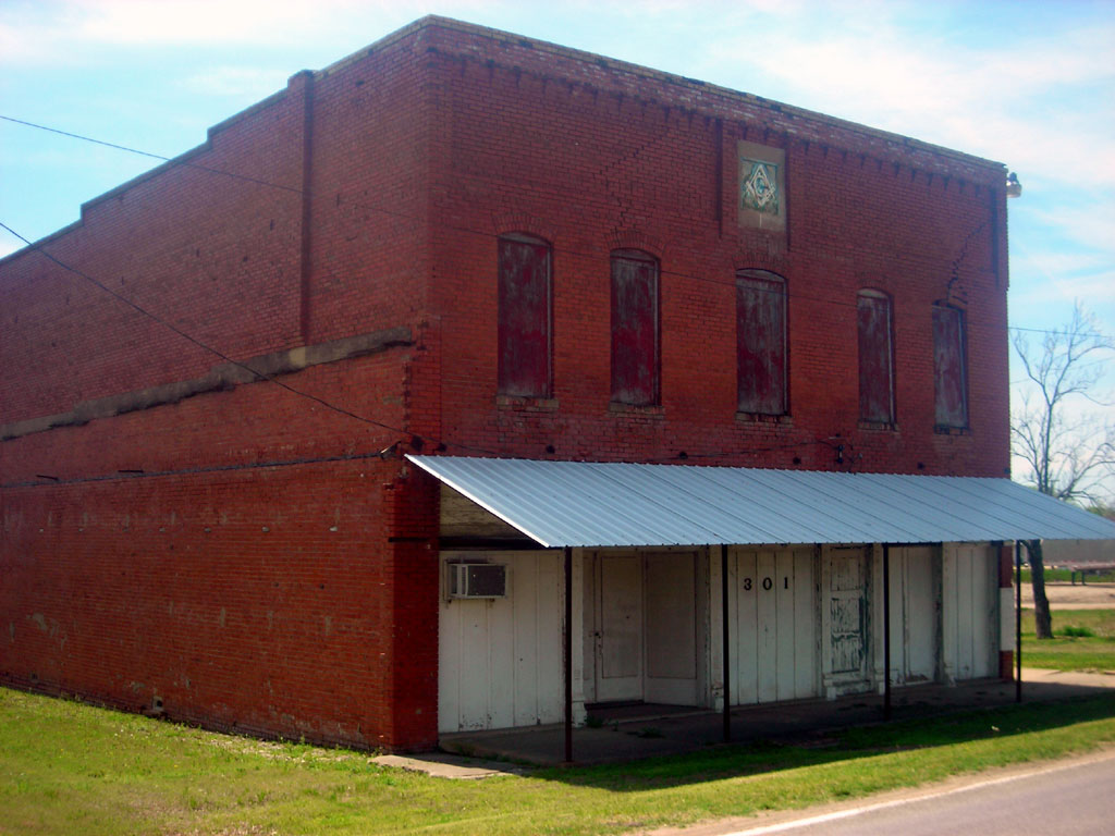 The former Masonic Lodge in Bardwell.